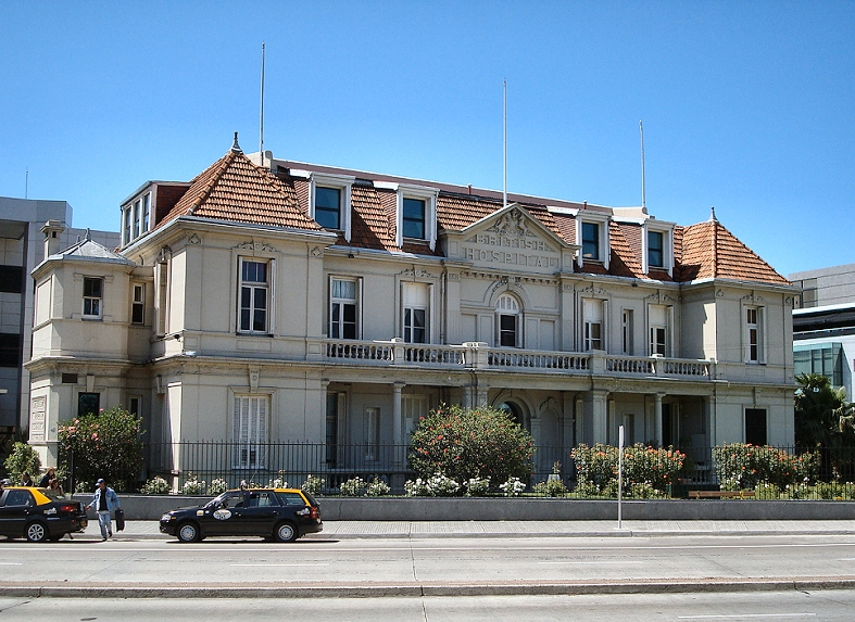 Hospital Británico, the original building next to the modern hospital unit, Avenida Italia, Montevideo, Uruguay.